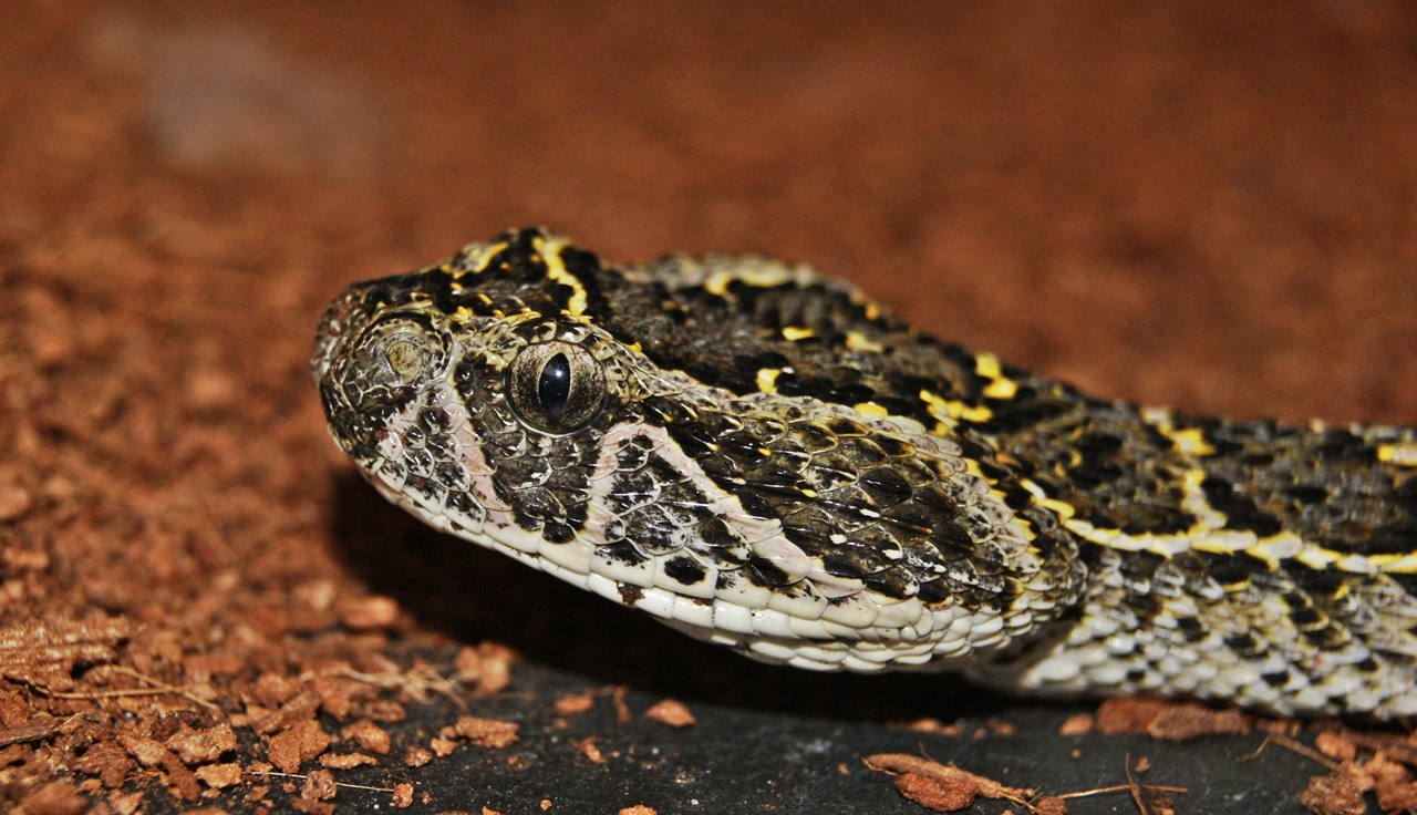 Bitis arietans